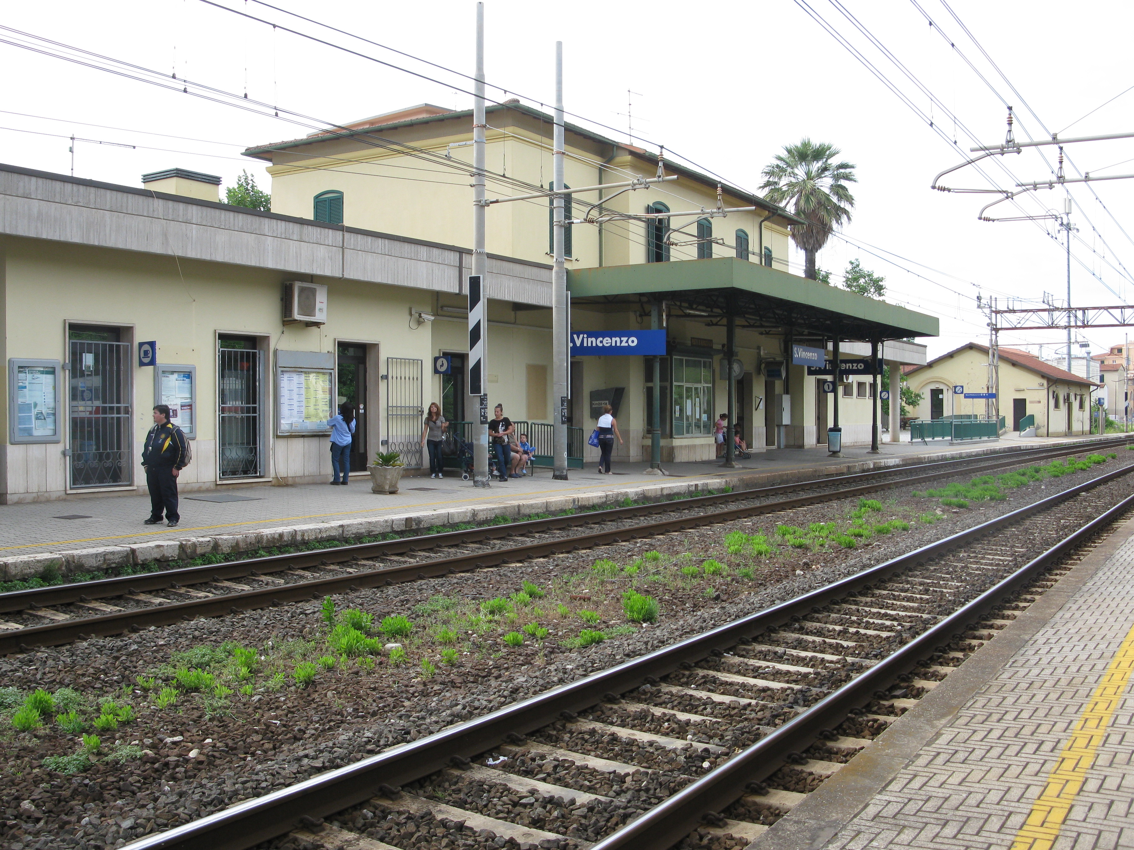 San Vincenzo railway station,view of the station building from platform 2